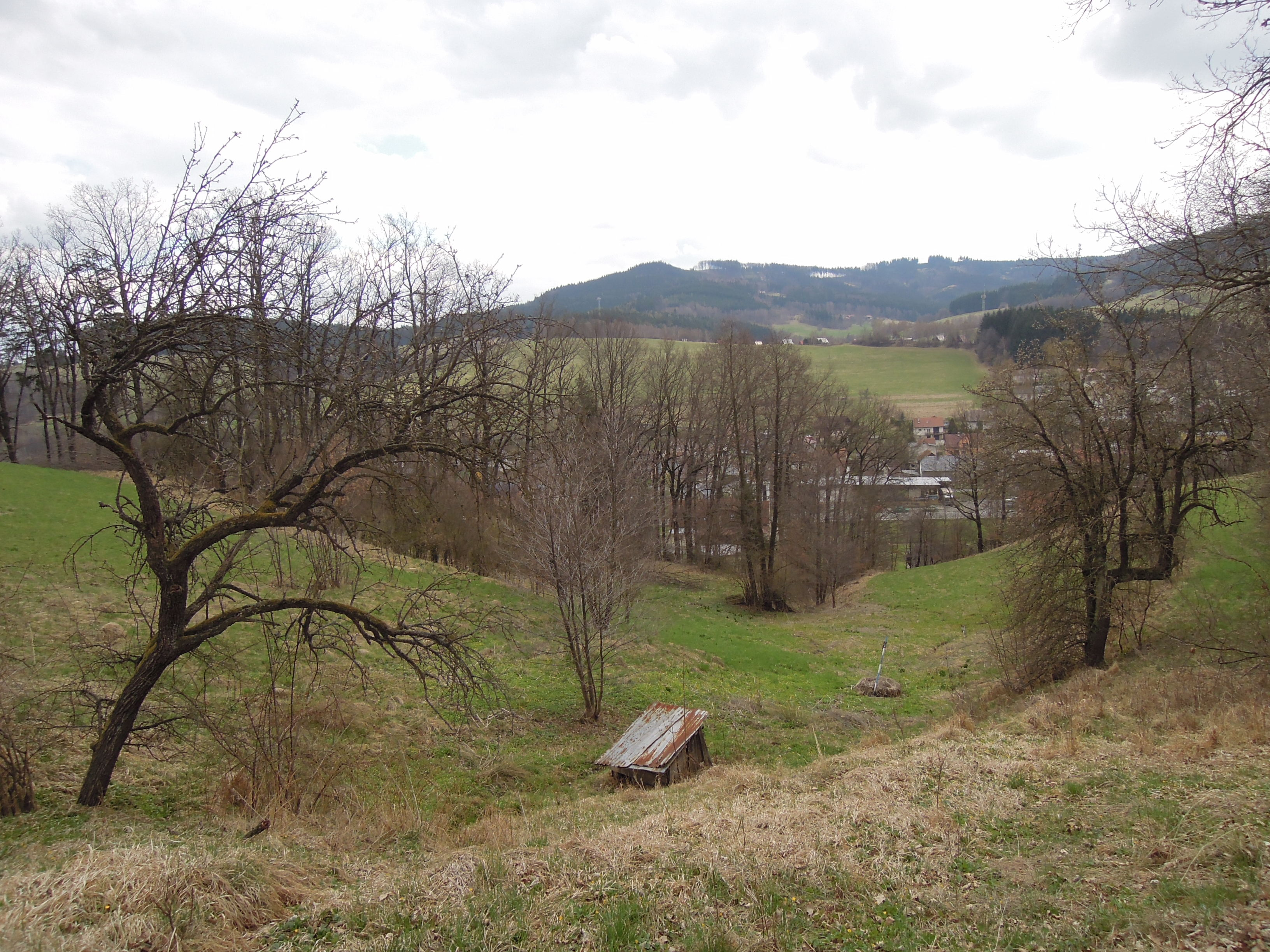 Zbrankova stráň natural monument in Ratiboř, Vsetín District, Zlín Region, Czech Republic